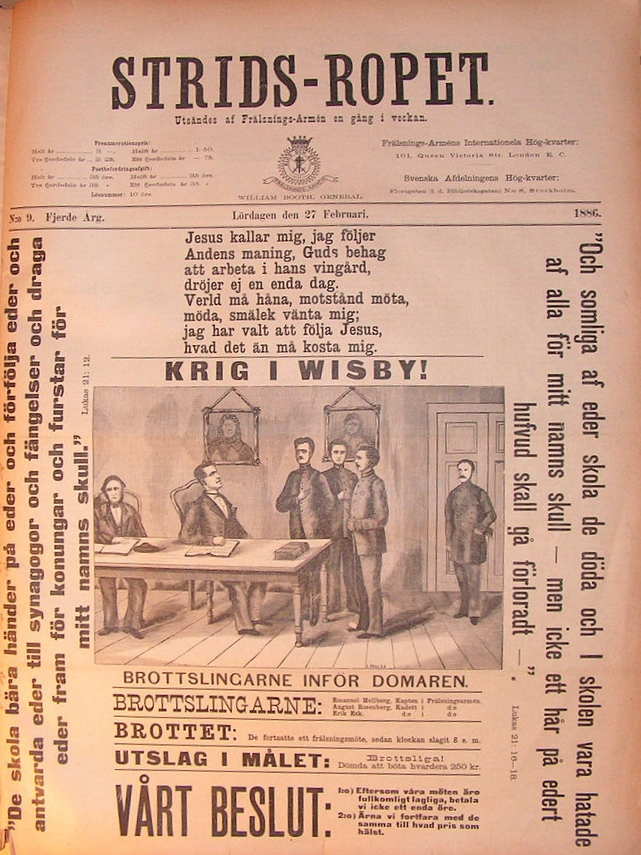 The swedish version of The War Cry, Stridsropet nummer 9, saturday february 27 1886.